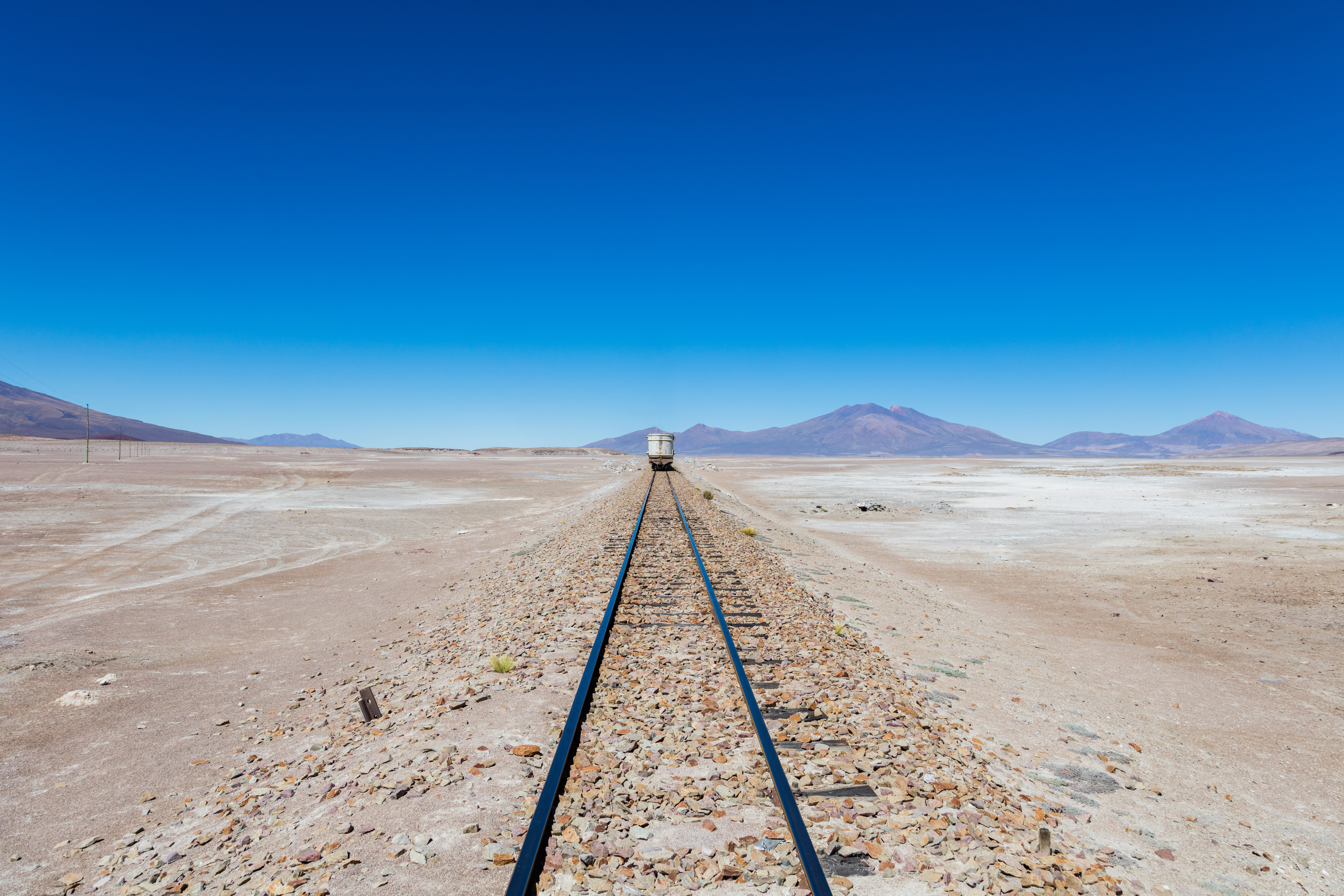 FCA train in the route Ollagüe-Uyuni, Bolivia